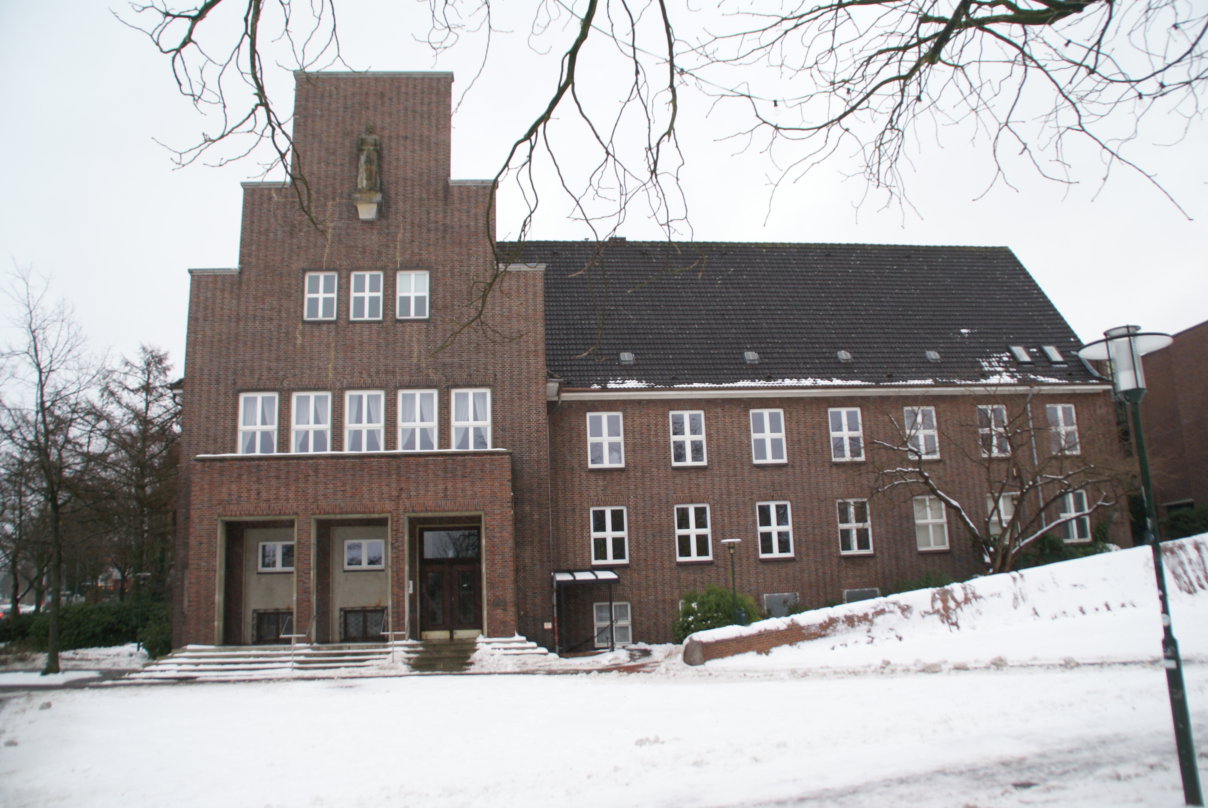 Wedel (Germany): Town Hall